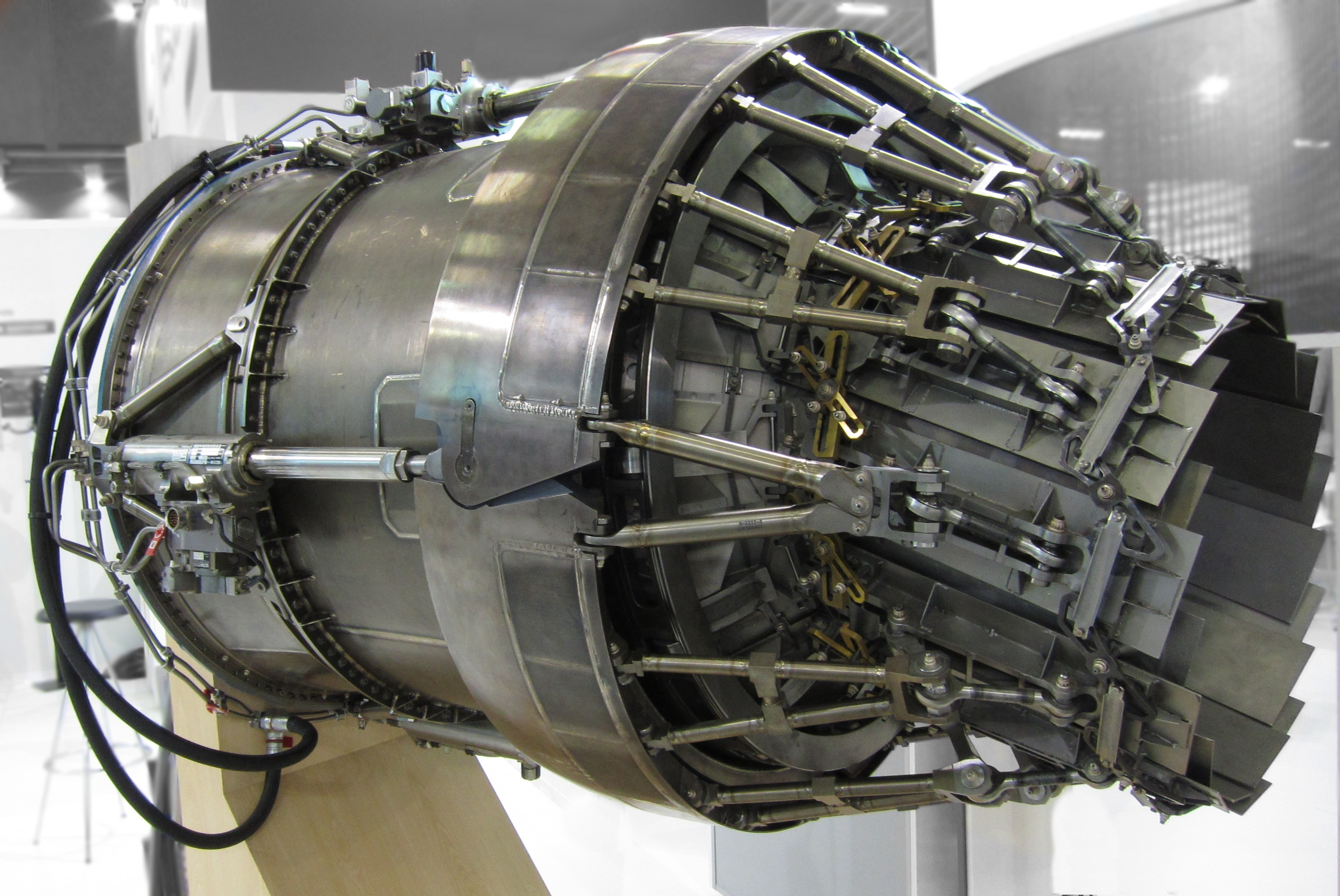 Thrust vectoring nozzle for a Eurojet EJ200 turbofan (possible upgrade, not currently in operation or testing) displayed at the Paris Air Show 2013